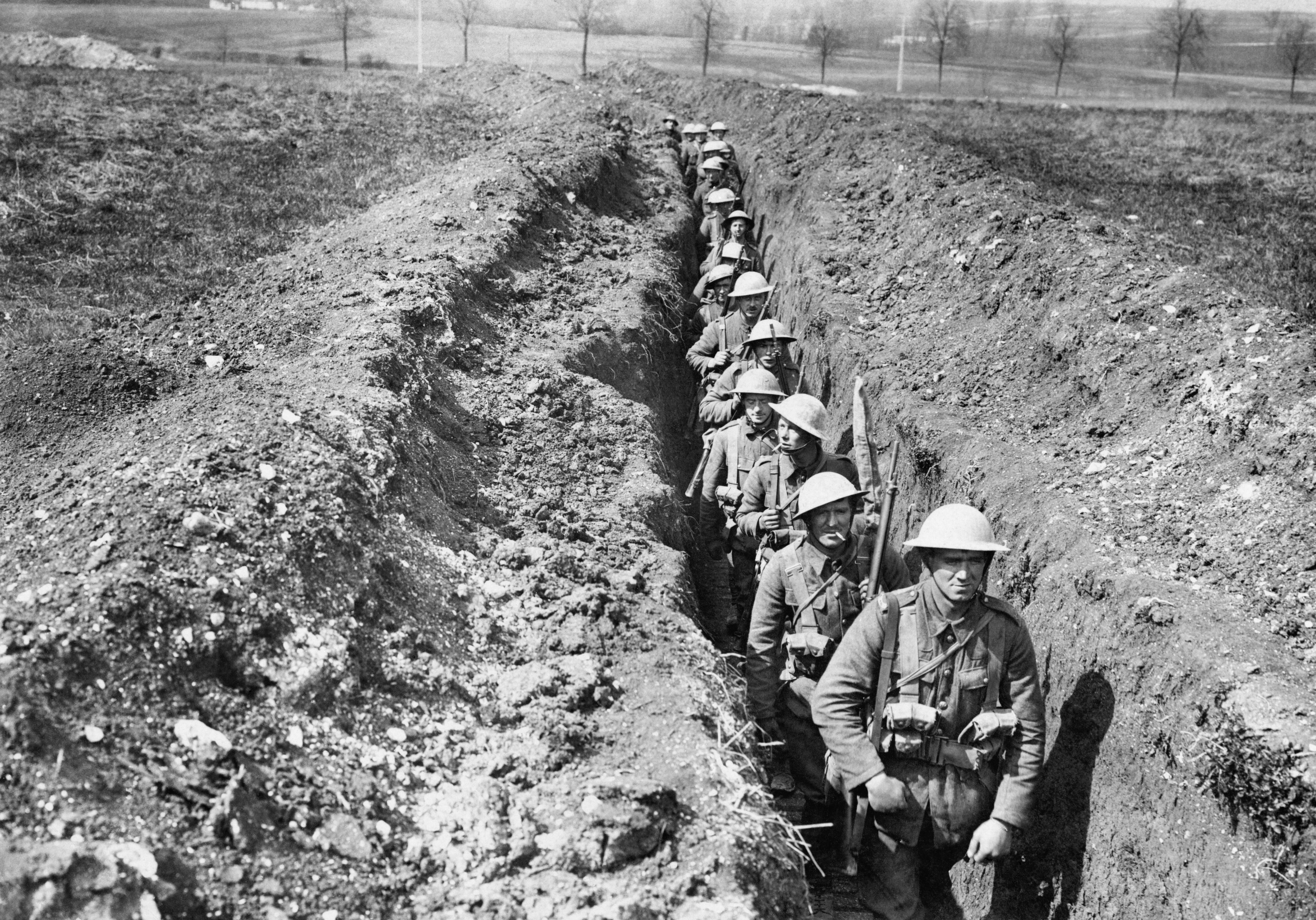 Men of the King's Liverpool Regiment moving along a communication trench near Blairville Wood, 16th April 1916. The King's Liverpool Regiment, 55th Division, moving along a communication trench leading to the front line near to Blairville Wood, Wailly, 16th April 1916.